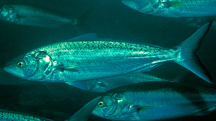 Arripis trutta, at Jimmies Island, Batemans Bay, New South Wales.